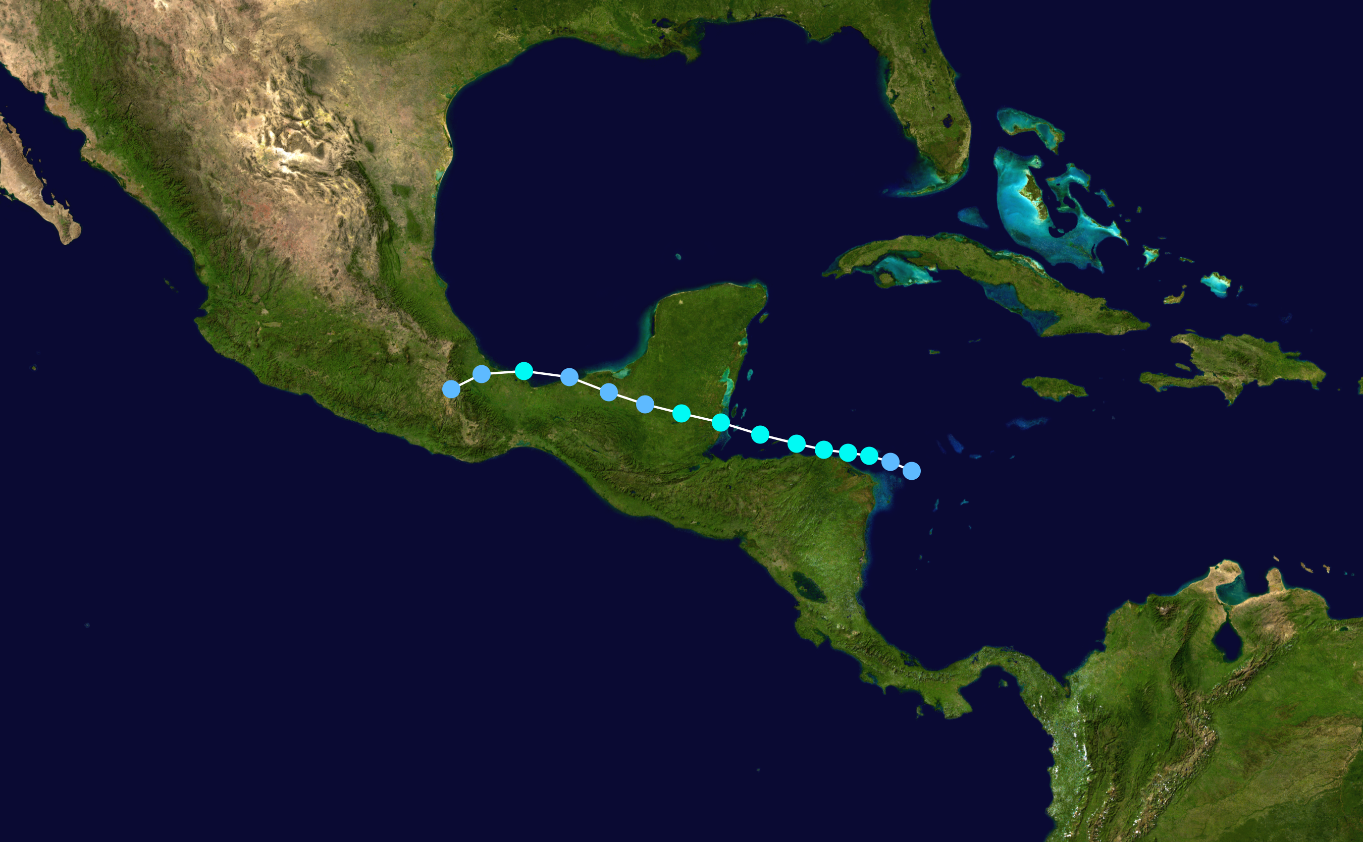 Track map of Tropical Storm Harvey of the 2011 Atlantic hurricane season. The points show the location of the storm at 6-hour intervals. The colour represents the storm's maximum sustained wind speeds as classified in the Saffir–Simpson scale (see below), and the shape of the data points represent the nature of the storm, according to the legend below. Saffir–Simpson scale Tropical depression≤38 mph≤62 km/h Category 3111–129 mph178–208 km/h Tropical storm39–73 mph63–118 km/h Category 4130–156 mph209–251 km/h Category 174–95 mph119–153 km/h Category 5≥157 mph≥252 km/h Category 296–110 mph154–177 km/h Unknown Storm type Tropical cyclone Subtropical cyclone Extratropical cyclone / Remnant low / Tropical disturbance / Monsoon depression